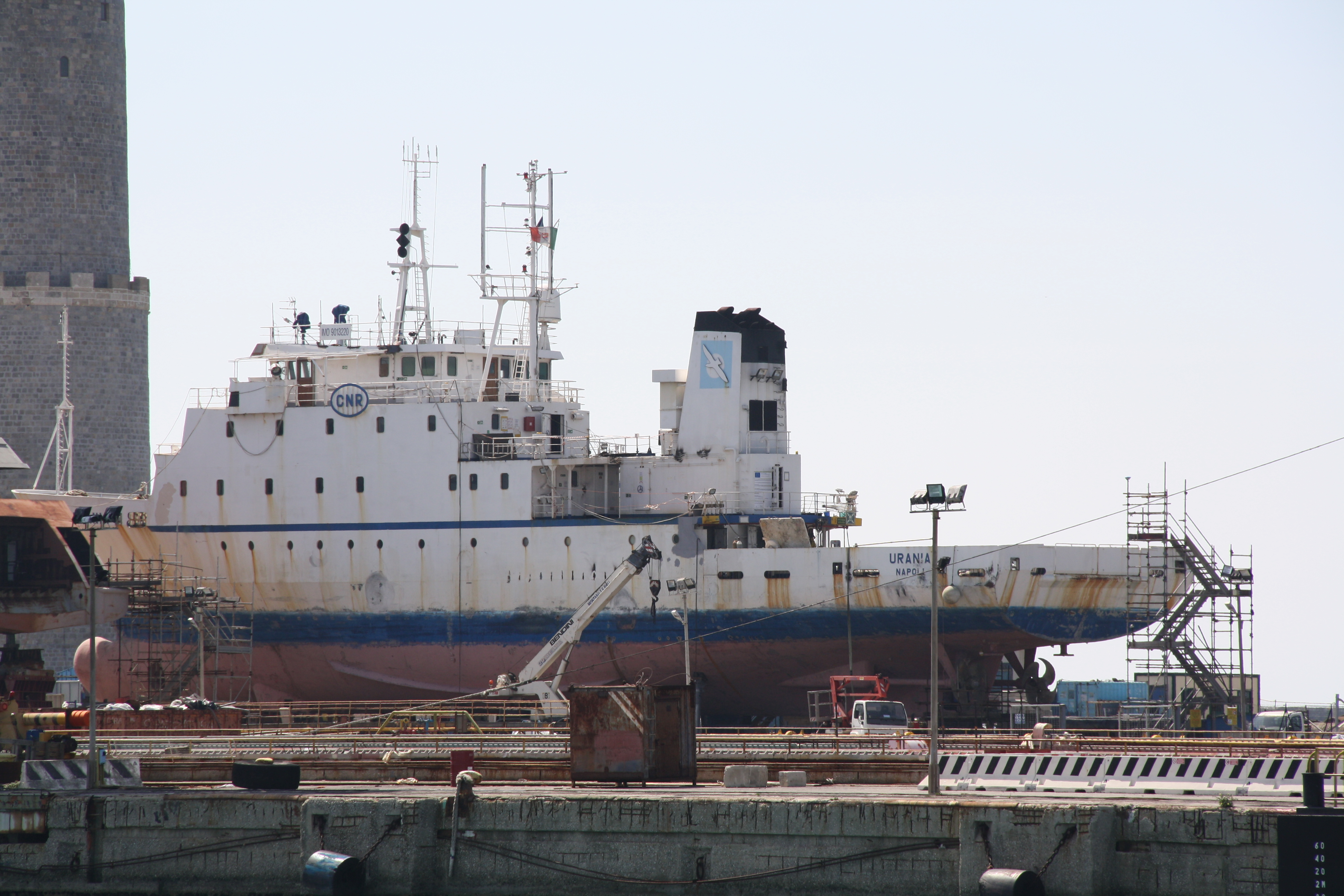 Shipowner: Sopromar, Naples, Italy Operator: Sopromar, Naples, Italy IMO: 9013220 MMSI: 247498000 Call sign: IQSU Type: Research vessel Builder: Cantiere Mario Morini, Ancona, Italy Yard number: 227 Launch date: November 30, 1990 Delivery date: November 30, 1991 Official number: 275 R.I. (Italian Register) Port of registry: Naples Gross tonnage: 1,115 t Net tonnage: 334 t DWT: 470 t Displacement (ship): 900 t Length overall: 61.03 m Breadth: 11.10 m Depth: 5.30 m Draught: 4.79 m Main engine: 2 x MAK-4S Engine power: 2,000 kW Speed: 14.4 knots Crew: 36